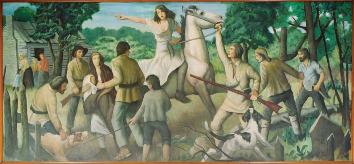 Mural "Rachel Silverthorne's Ride" (1938) by John W. Beauchamp in the Muncy Post Office, Lycoming County, Pennsylvania, USA More information at The Living New Deal